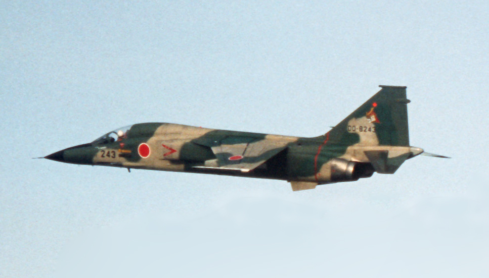 A left side view of Mitsubishi F-1 (243) of 3 Sqn flying during the joint Exercise COPE NORTH '85-1. (U.S. Air Force photo by Staff Sgt. Lee Schading)